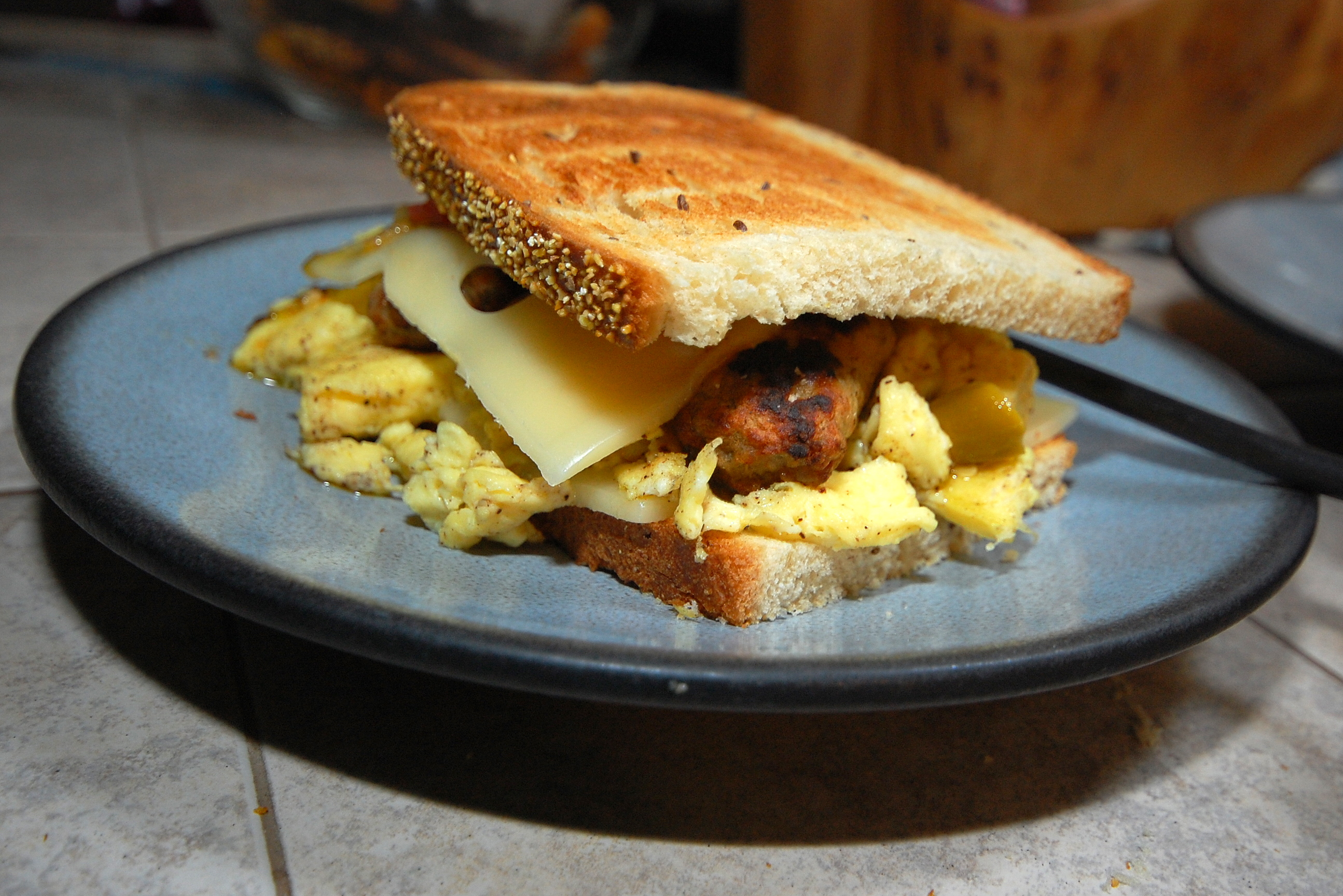 Sausage, scrambled eggs and swiss cheese on rye